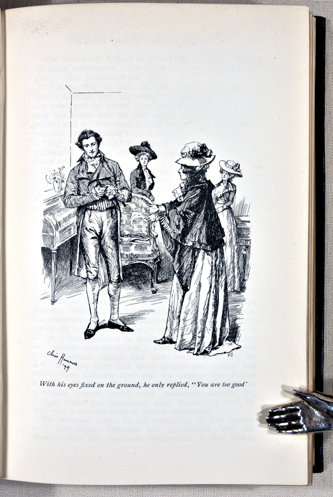 "With his eyes fixed on the ground he only replied, 'You are too good.'" - Willoughby awkwardly apologizes for leaving Marianne so suddenly. Austen, Jane. Sense and Sensibility. London: George Allen, 1899.